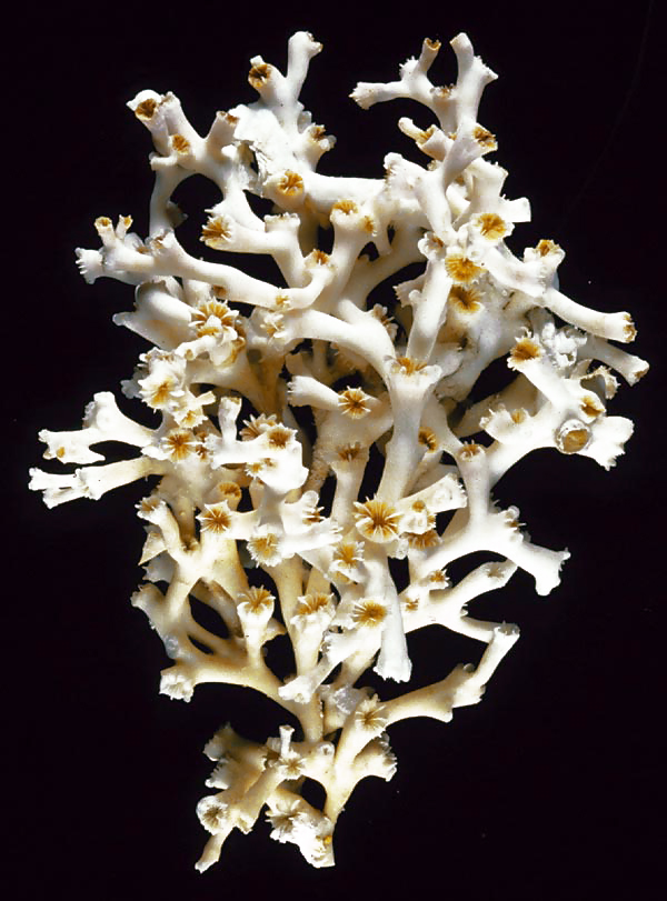 Lophelia a Stony coral